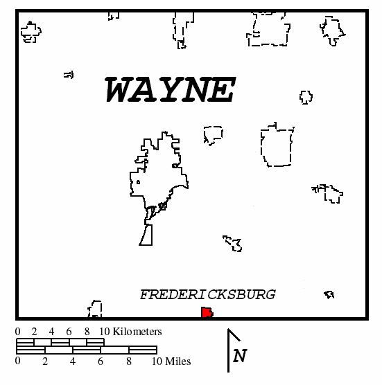 Map of Wayne County, Ohio highlighting Fredericksburg